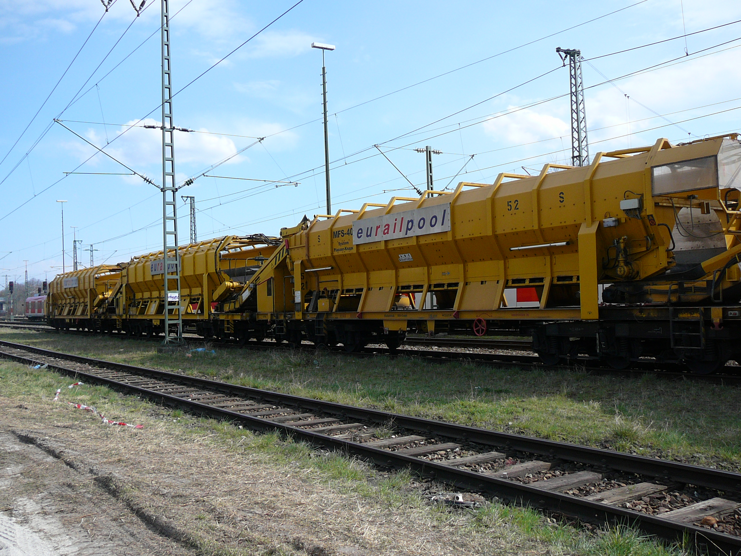 Three MFS-40 connected in a row.